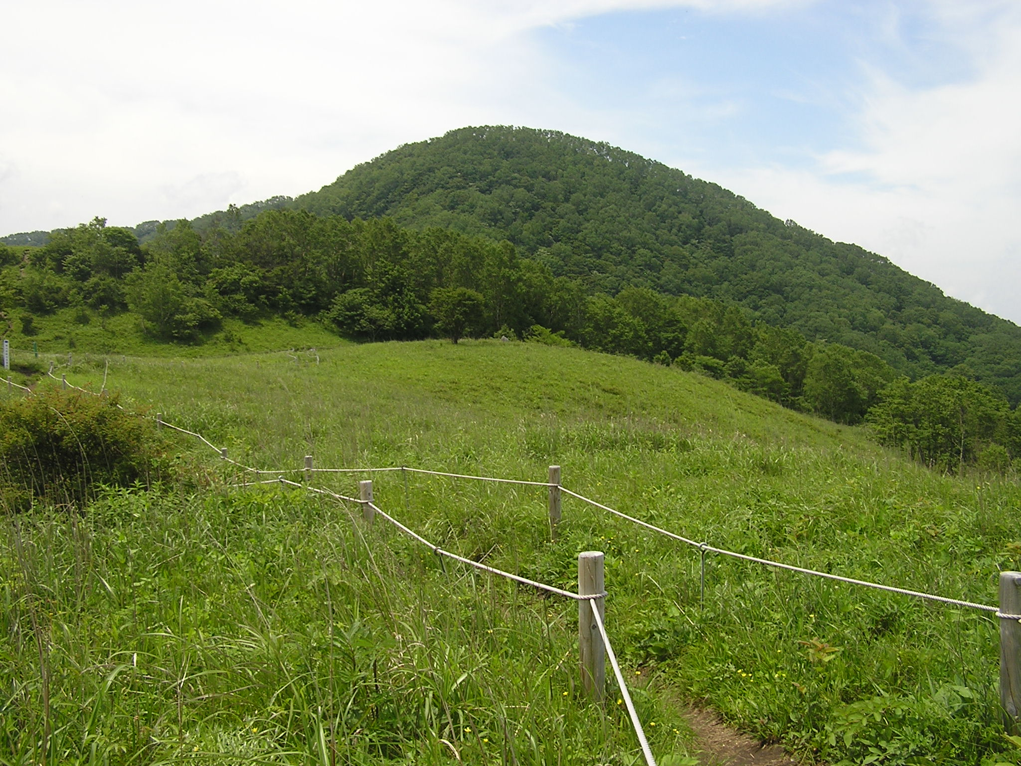 Mt. Ookuratakamaru